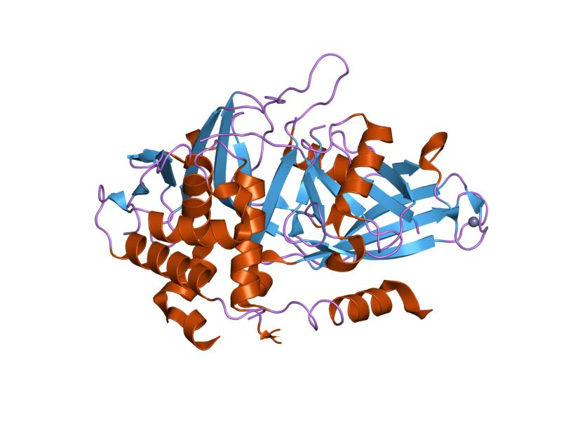 Cartoon representation of the molecular structure of protein registered with 2hd5 code.